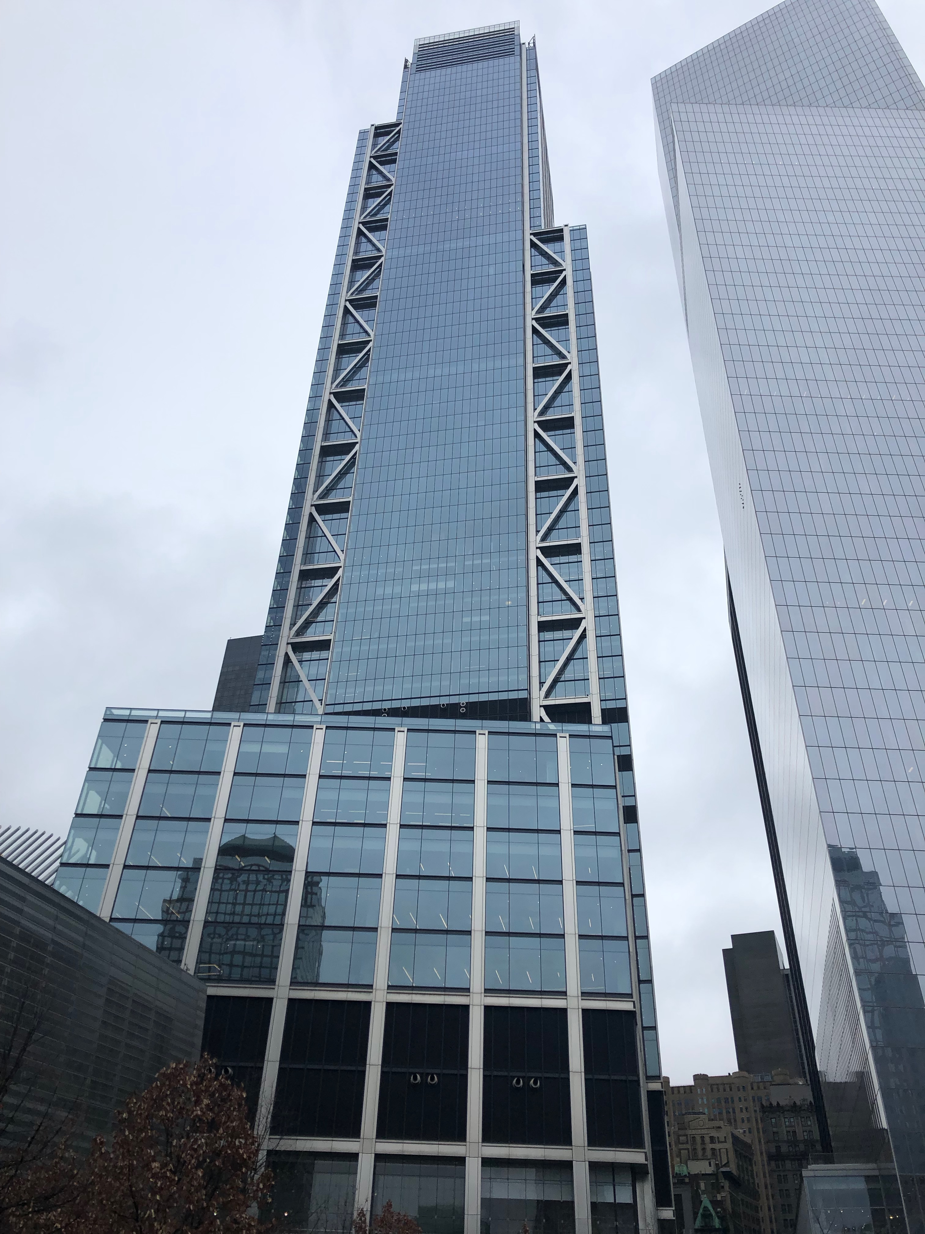 Three World Trade Center in January 2019